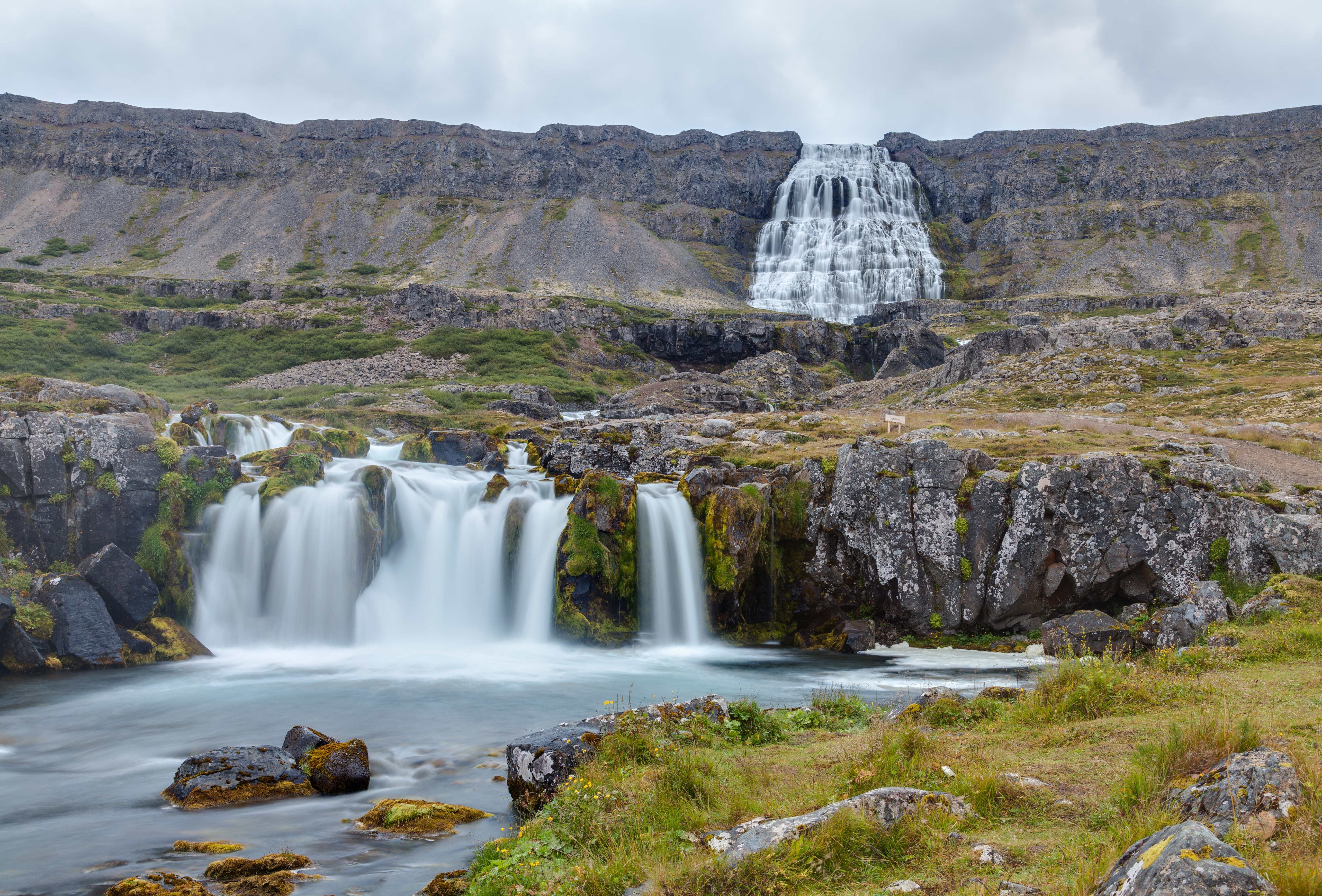 Waterfall Dynjandi, Vestfirðir, Iceland